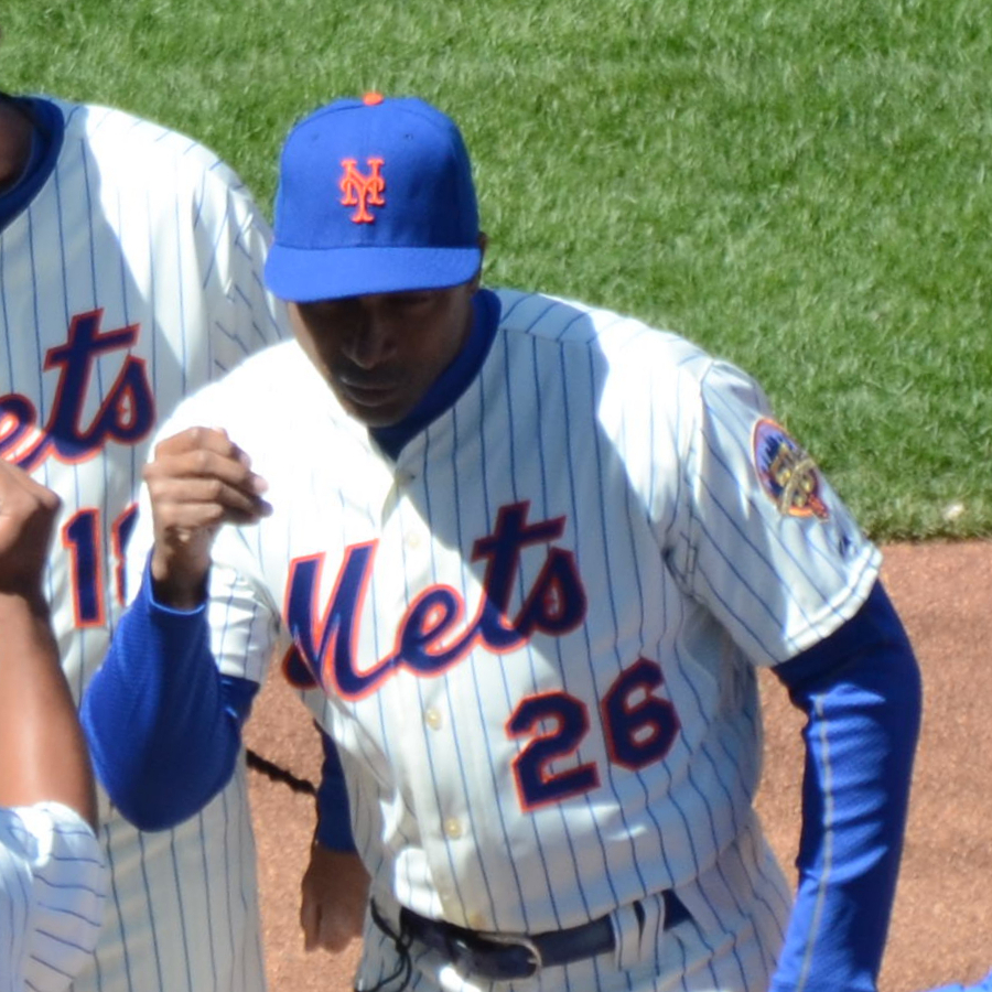 Tom Goodwin